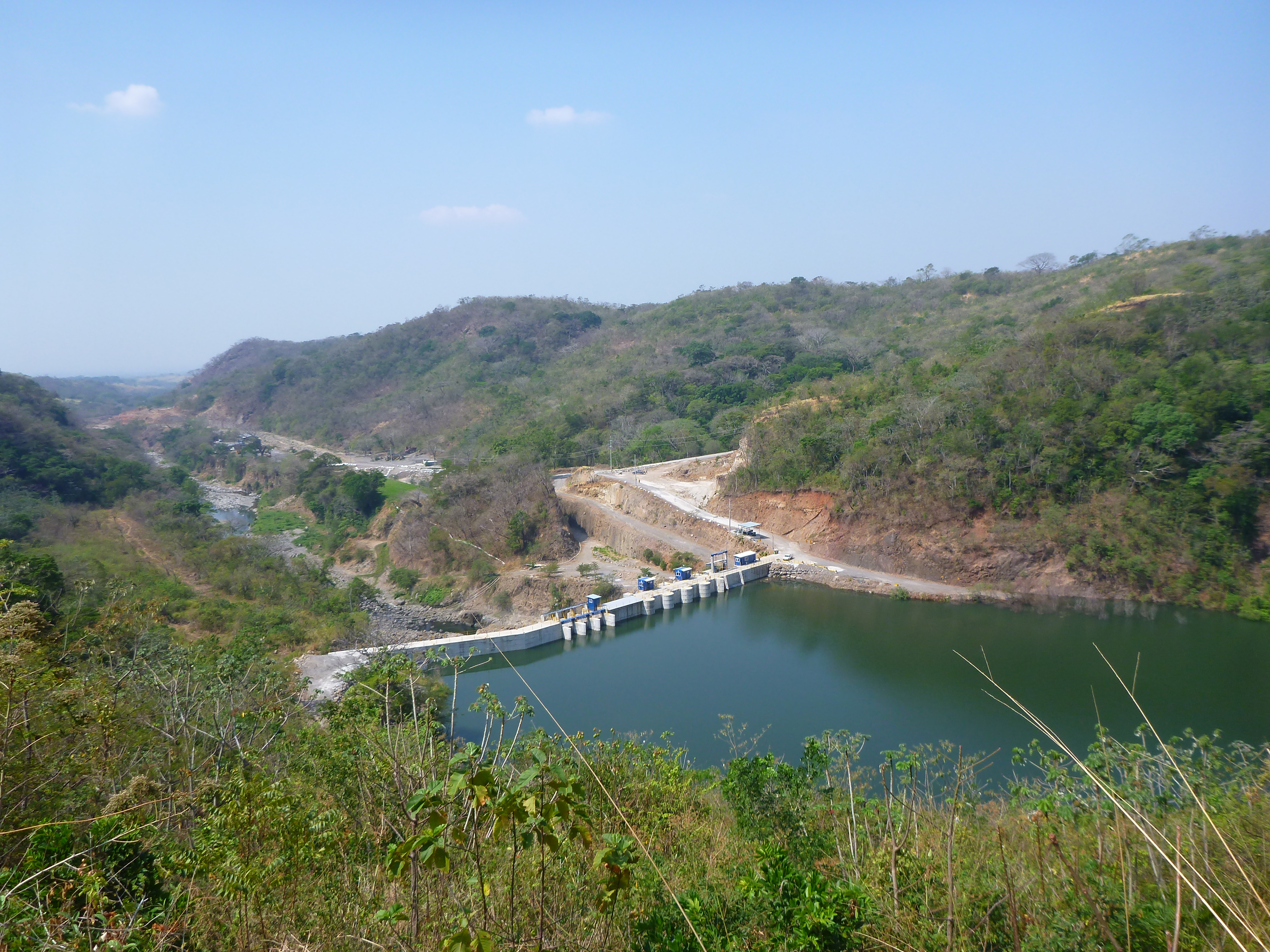 Dam in the Aguacapa River for the El Cóbano Hydroelectric Power Plant in Escuintla, Guatemala.